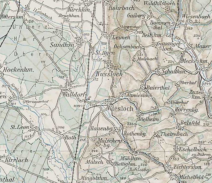 part of 3rd Military Mapping Survey of Austria-Hungary - Wiesloch, Germany